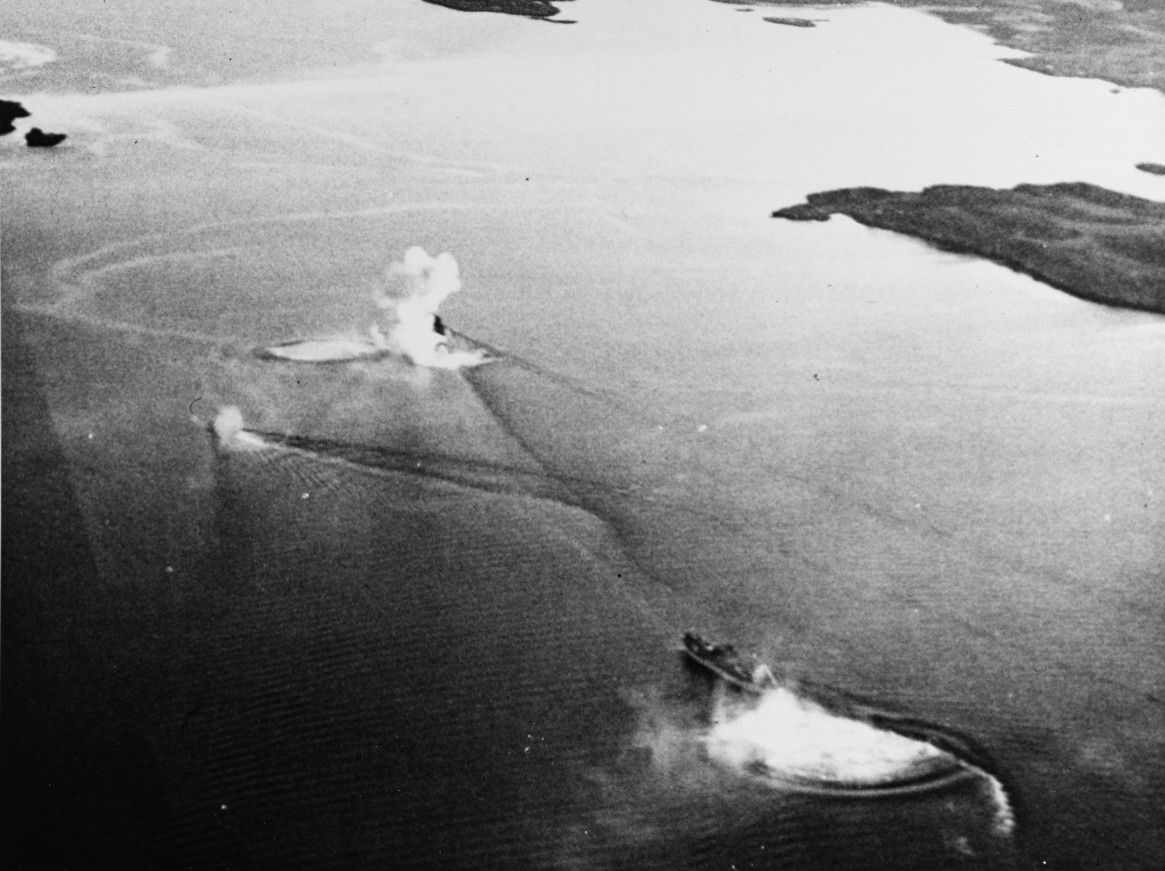 Aircraft attack on German shipping, Bodo Harbor, Norway, showing 5000 GT M/V destroyer, and RIGMOR under attack, 4 October 1943.